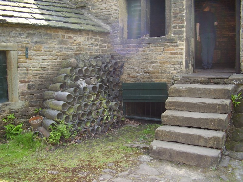 "Crucible steel" gets its name from the process to manufacture it. The right ingredients are added in a special secure room before being lowered into a furnaces for 3 hours and baked. This steel process was popular before the mass production from the Bessemer converter. Abbeydale Industrial Hamlet is an industrial museum in the south of the City of Sheffield, England. The museum forms part of a former steel-working site on the River Sheaf, with a history going back to at least the 13th century. It consists of a number of dwellings and workshops that were formerly the Abbeydale Works—a scythe-making plant that was in operation until the 1930s—and is a remarkably complete example of a 19th century works. The works are atypical in that much of the production process was completed on the same site (in a similar manner to a modern factory). The site is a scheduled ancient monument, the works are Grade I listed and the workers' cottages, counting house, and manager's house are Grade II* listed. Abbeydale Industrial Hamlet is run as a working museum, with works and buildings dating from between 1714 and 1876. The museum demonstrates the process making blister steel from iron and coke, then refining this steel using techniques that originated with Benjamin Huntsman's invention of the crucible steel process. The river provides water power via a water wheel. There are several wheels on the site for driving a tilt hammer, for the initial forging of the scythe blades; grinding machinery, which also has steam installed as backup for times of drought, and a set of bellows. The blades were also hand forged for finishing. The museum is free to the public Sunday to Thursday between April and October.